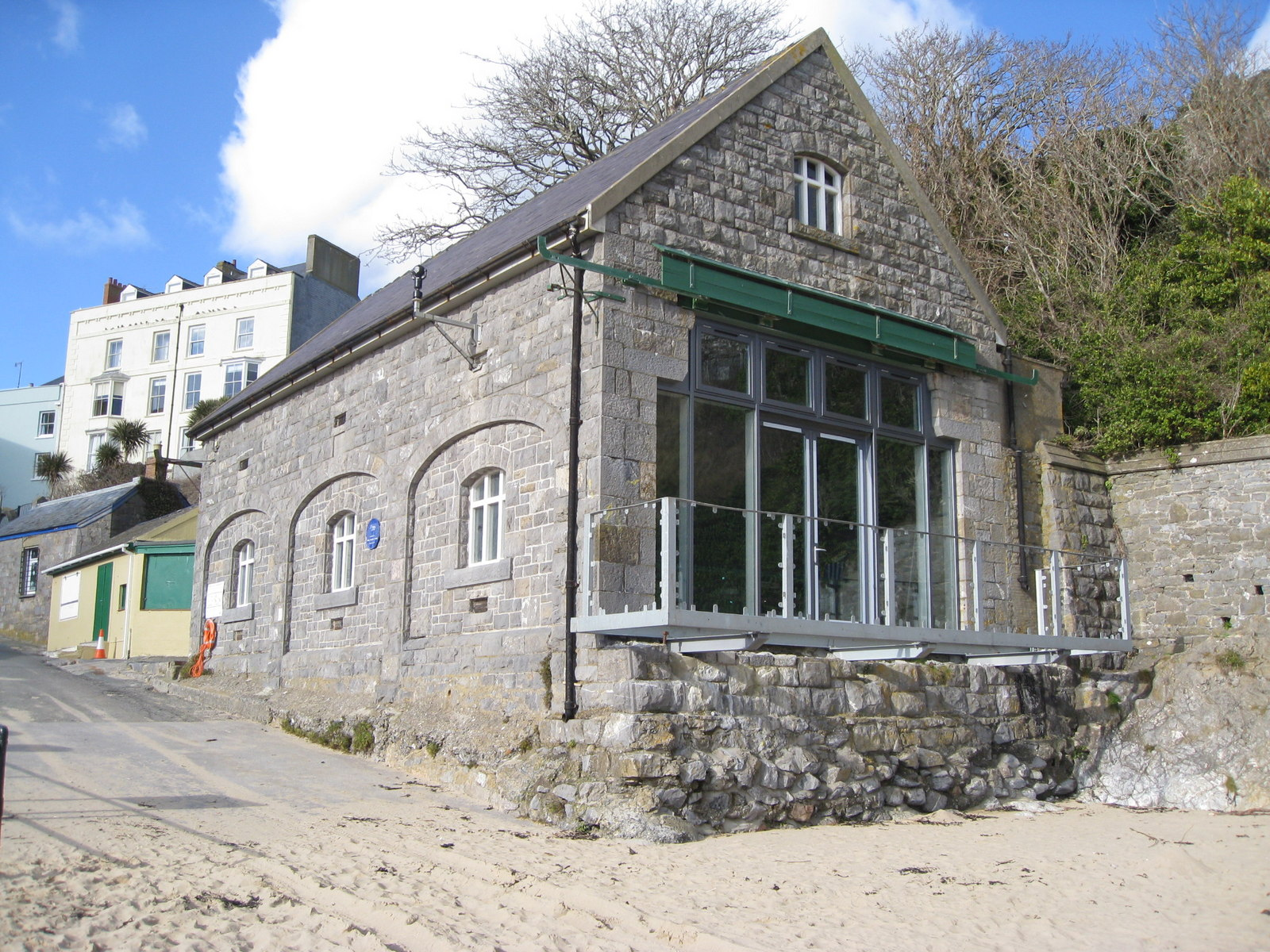 Victorian Lifeboat Station 1894. The old lifeboat station nestles below Castle Hill, but it is exposed to the southerly and southwesterly gales. This was the first lifeboat station for Tenby but it appeared to have had a relatively short life 1894-1905. No doubt the authorities decided on a more sheltered location north of Castle Hill. This plaque records this building original use as the Tenby Lifeboat Station. 1713662